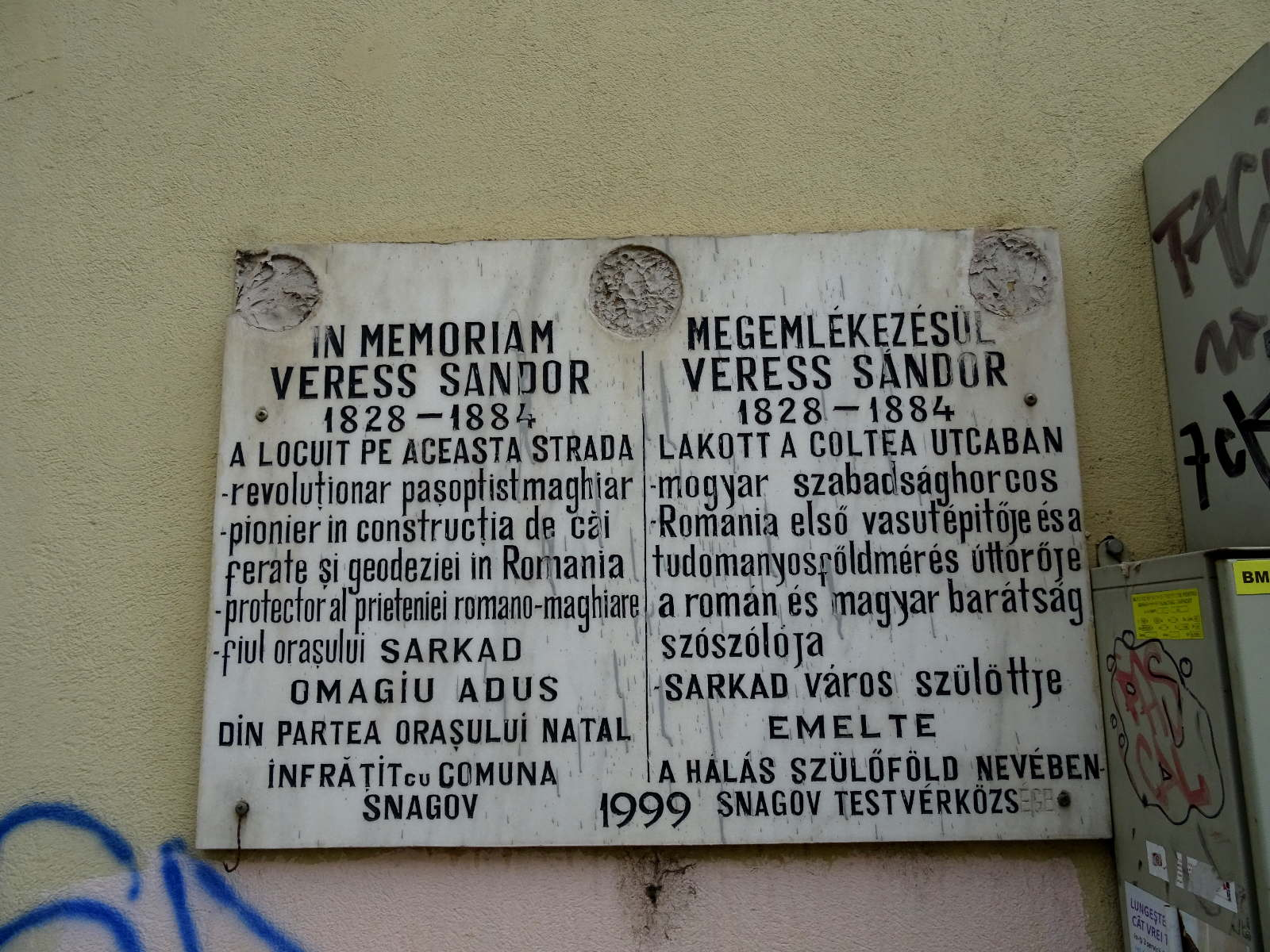 Memorial plaque for engineer Sándor Veress in Colței street, Bucharest, Romania